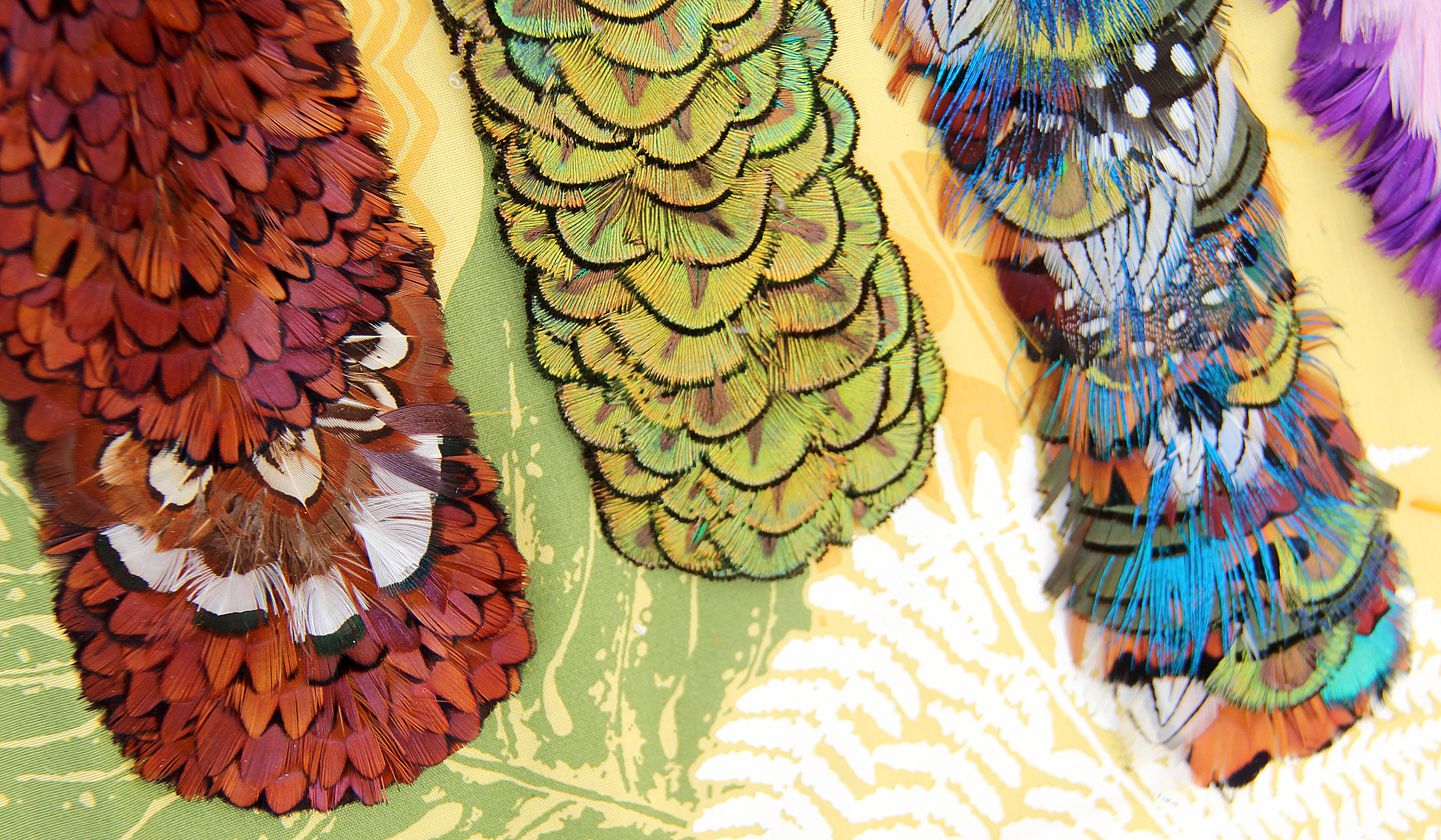 Lei Hulu - feather lei